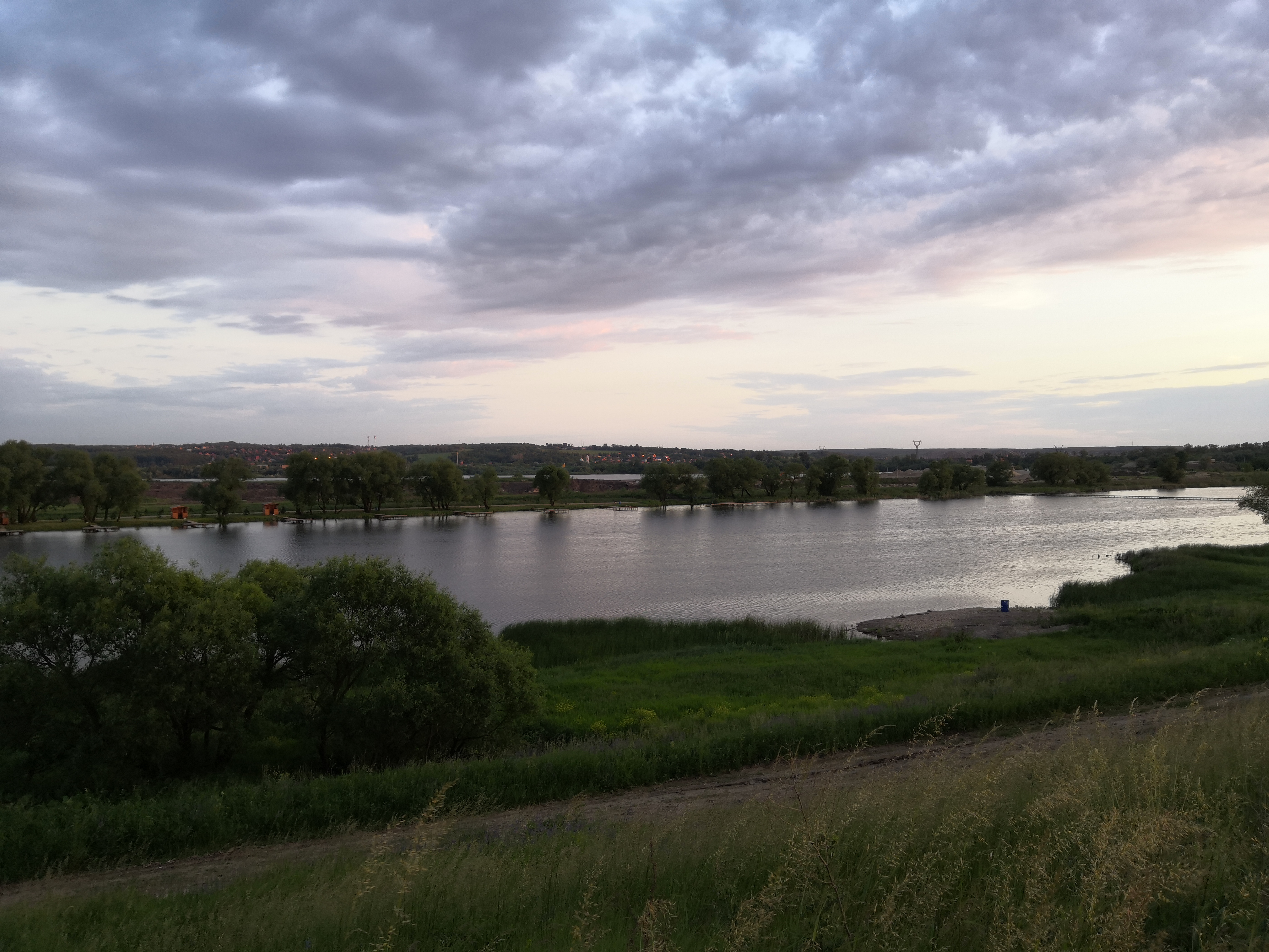 Lake Lutze in the village of Mirny